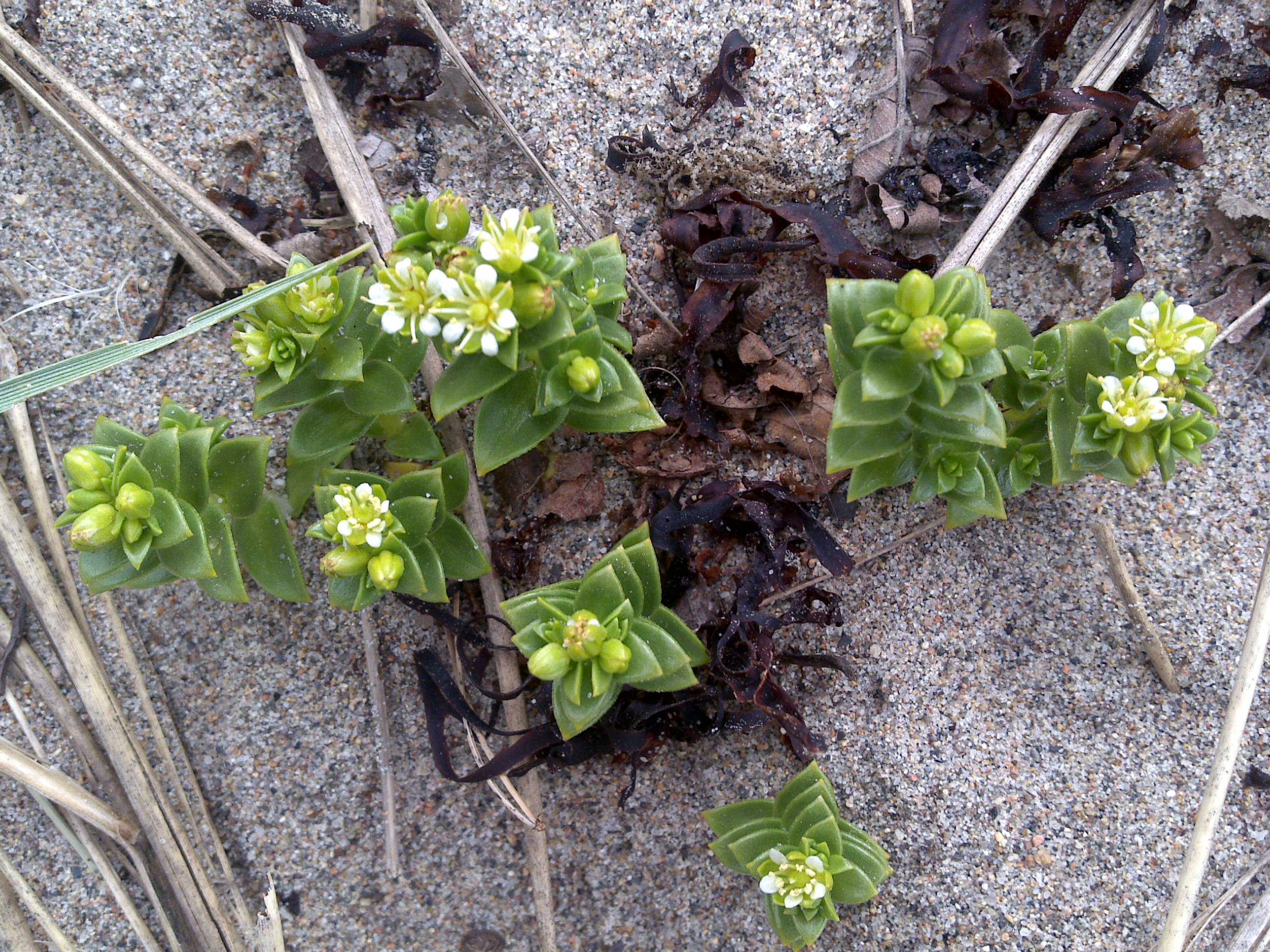 Honkenya peploides ssp peploides, near the Oslo fjord, in Ersvika, Hurum, Norway.